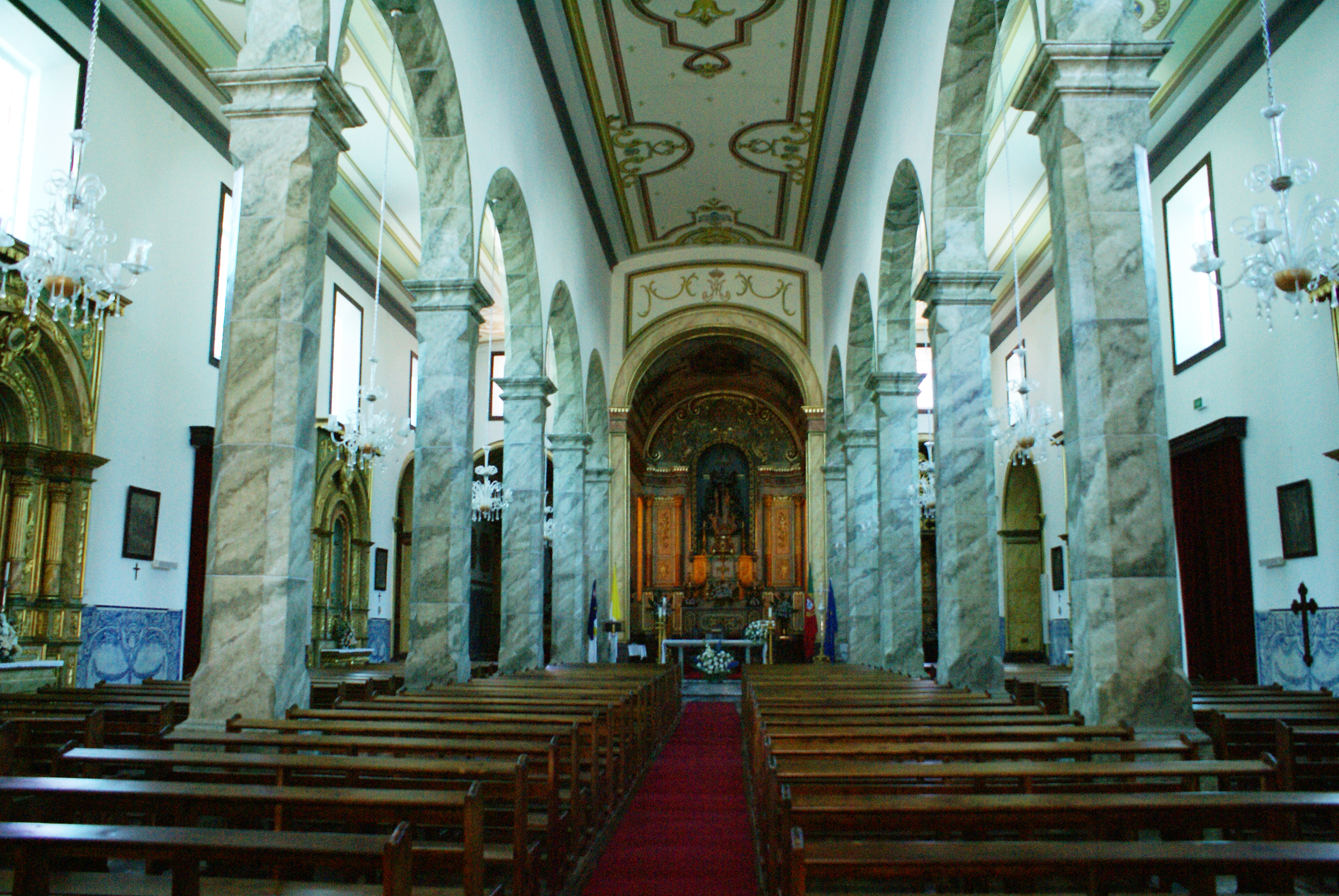 Central nave of the Church of Nossa Senhora Mãe de Deus, Povoação, São Miguel (Azores), Portugal